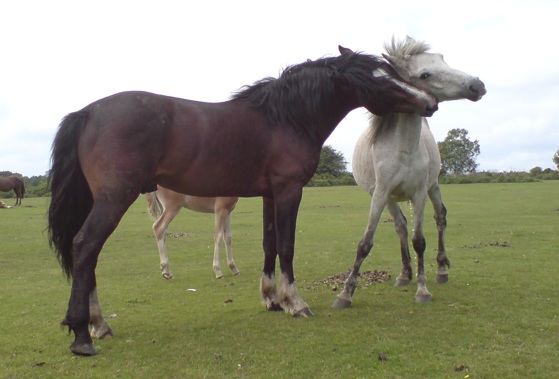 Dark bay New Forest stallion playfully wooing a mare